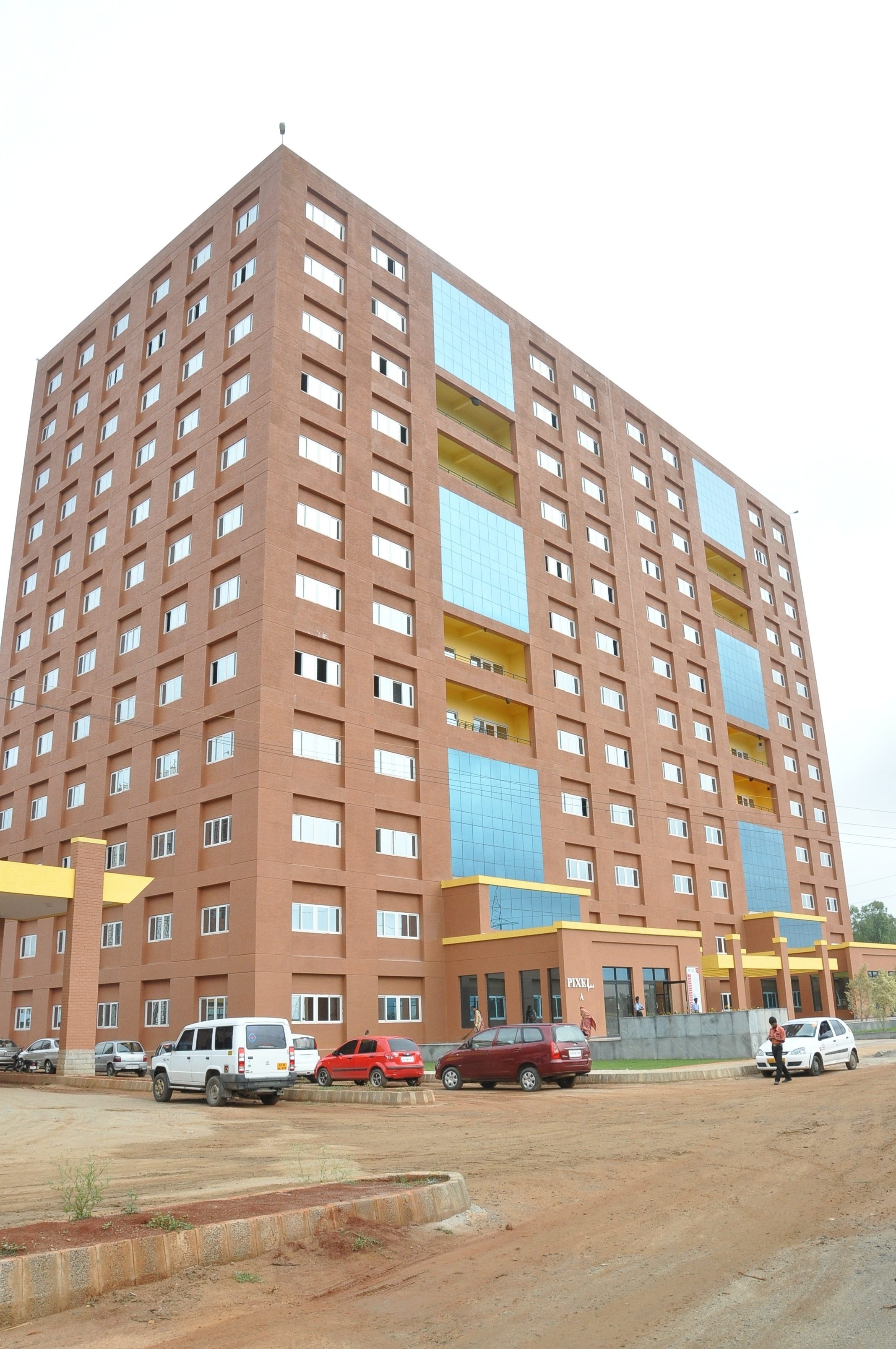 Azim Premji University Temporary Building, Pixel park